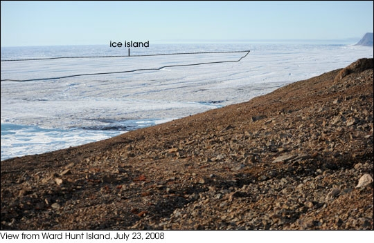 north coast of Ward Hunt Island, looking to grounded iceberg ("ice island") original description: Hardy’s July 23 photograph (top) shows a crack (outline added) in the Ward Hunt Ice Shelf. The crack produced a second ice island that was visible in an image acquired by the MODIS on NASA’s Terra satellite on July 24, 2008.